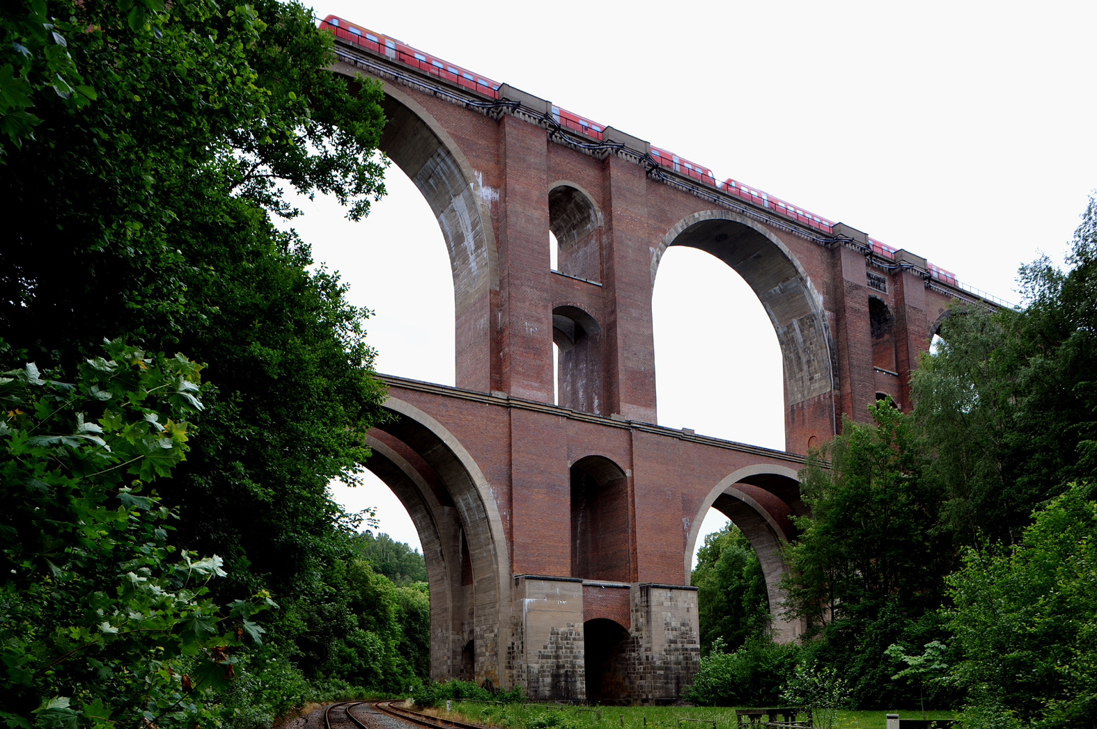 Elstertal bridge near Jocketa; Saxony, Germany.